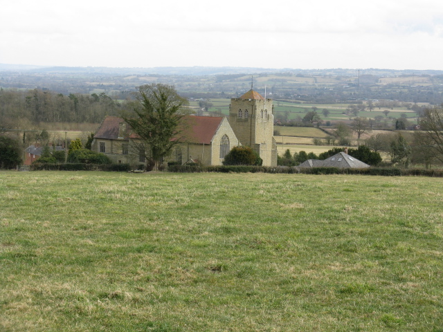 Richards Castle - All Saints Church The church is 19th century, built to replace the old town church, St Bartholemew's by the castle which was suffering subsidence.